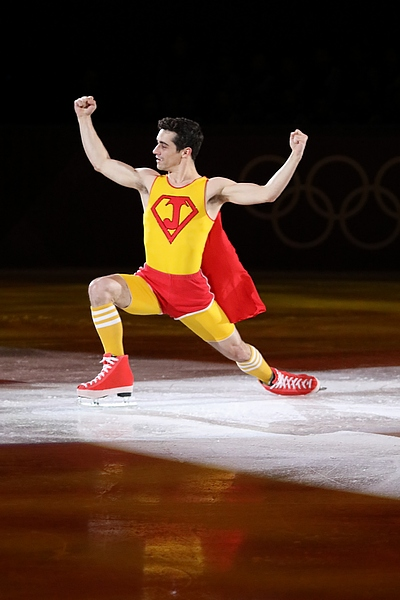 Gala exhibition at the 2018 Winter Olympics